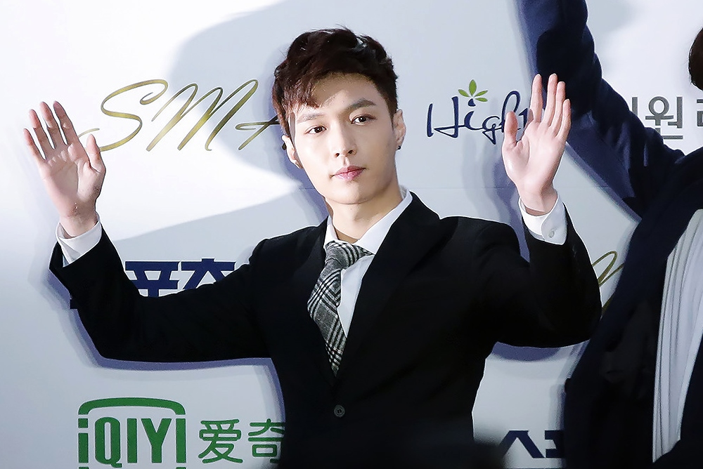 Lay Zhang at Seoul Music Awards on January 22, 2015.